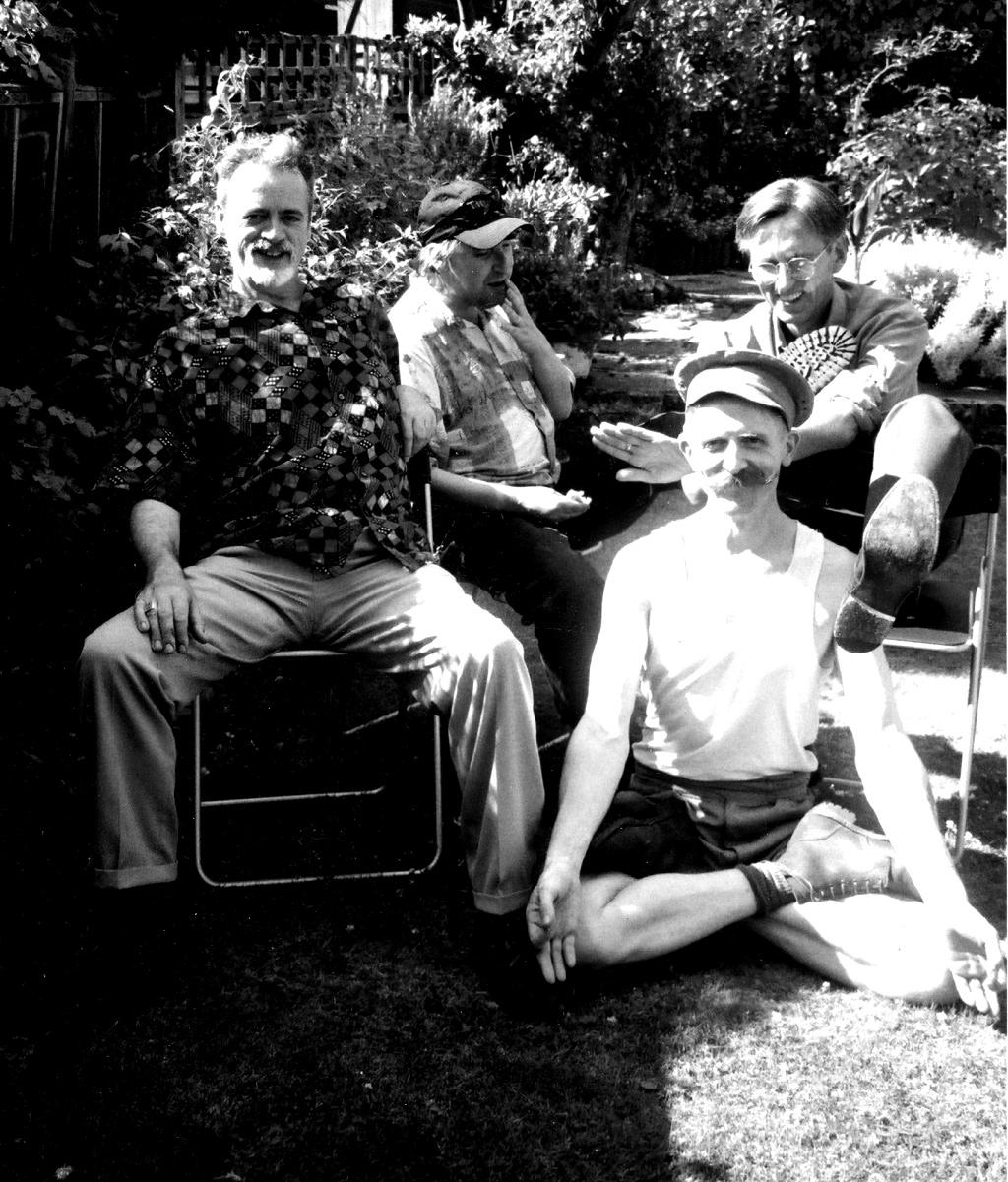 The Medway Poets 24 years on. Left to Right Bill Lewis, Sexton Ming, Rob Earl with Billy Childish in Yoga position. Photo by Bee Price 1st August 2003.